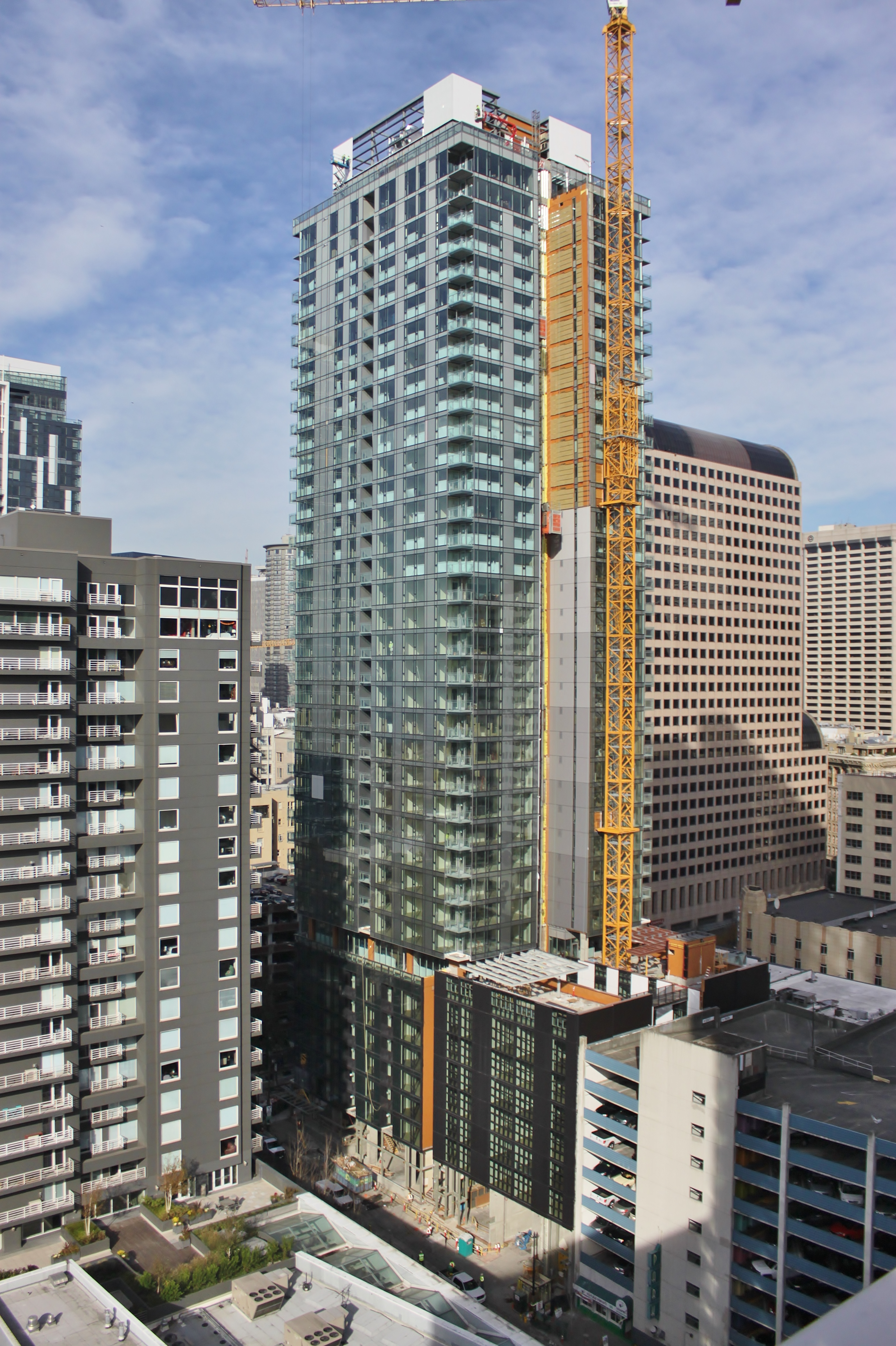 2nd & Pike, a high-rise residential building in Downtown Seattle, after its topping out. Seen from the Russell Investments Center.